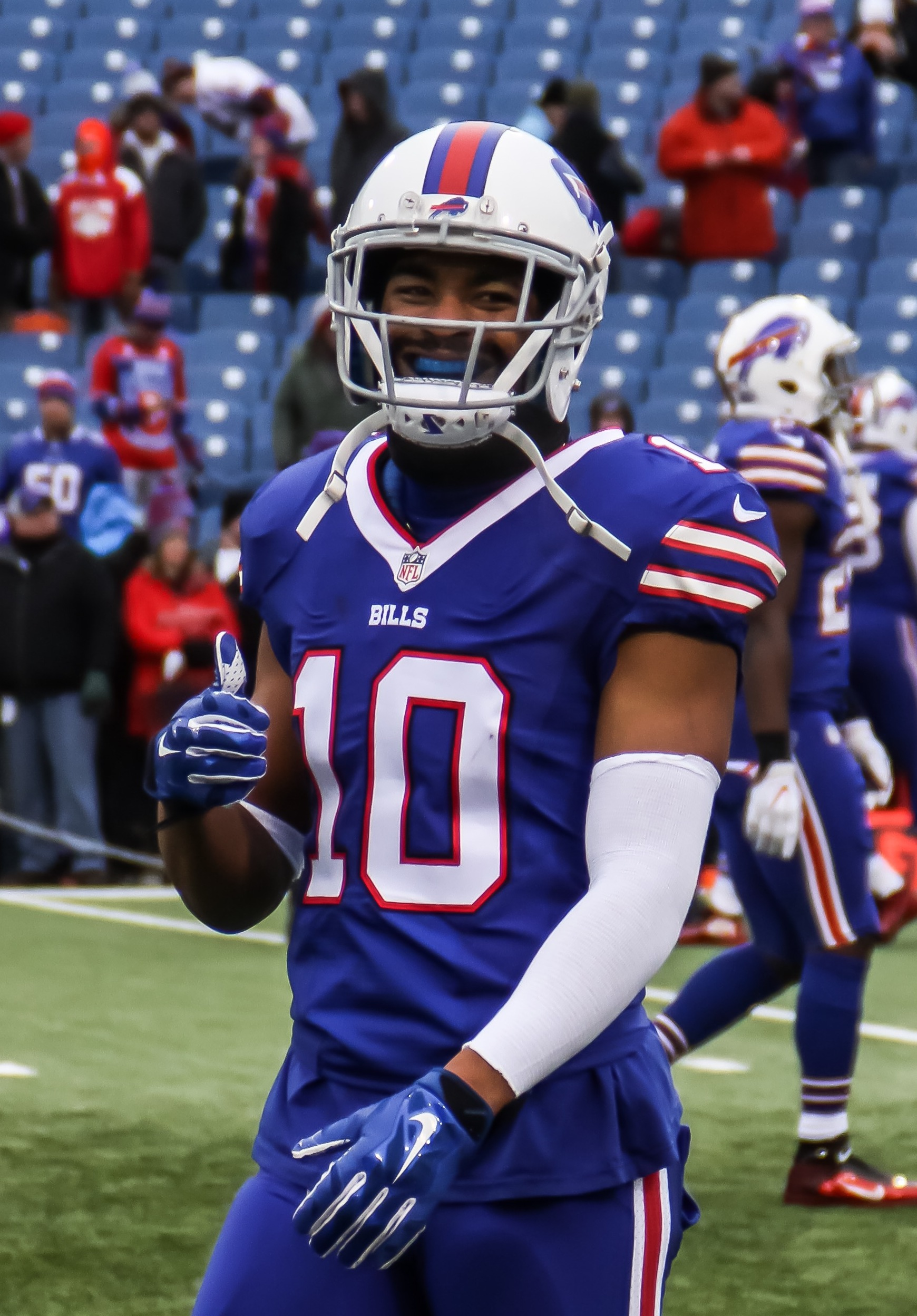 Robert Woods during pre-game warmups vs Miami 2016.